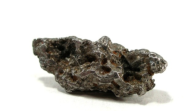 Platinum Locality: Salmon River - Red Mountain District, Goodnews Bay, Bethel Borough, Alaska, USA (Locality at ) A classic, richly textured nugget of solid platinum! HEFTY! This nugget weighs 5.6 grams or 0.16 troy ounces. He acquired it in 1954! 2 x 0.7 x 0.5 cm